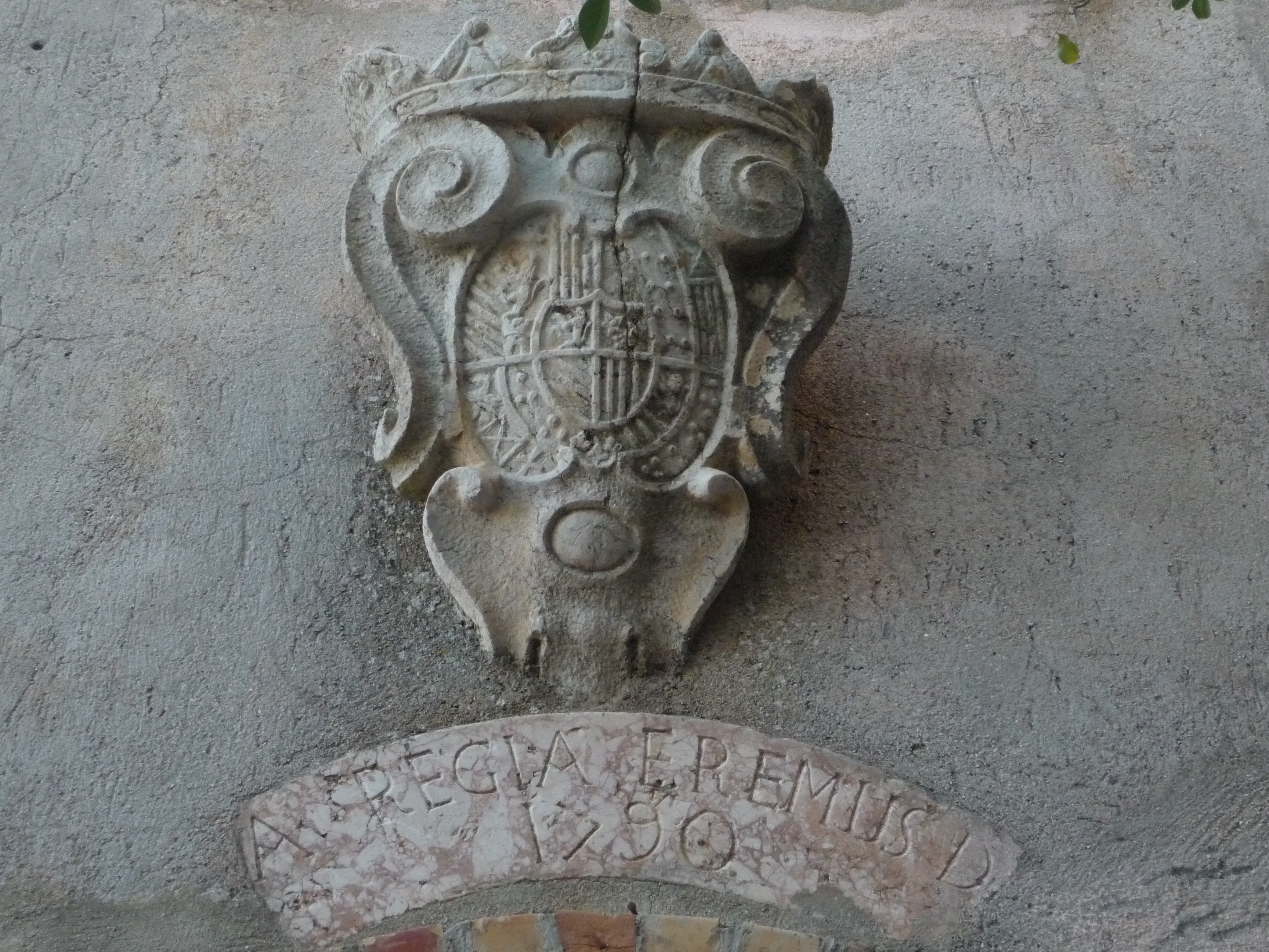 coat of arms at Eremo di Santa Maria della Stella (Pazzano - Italy)